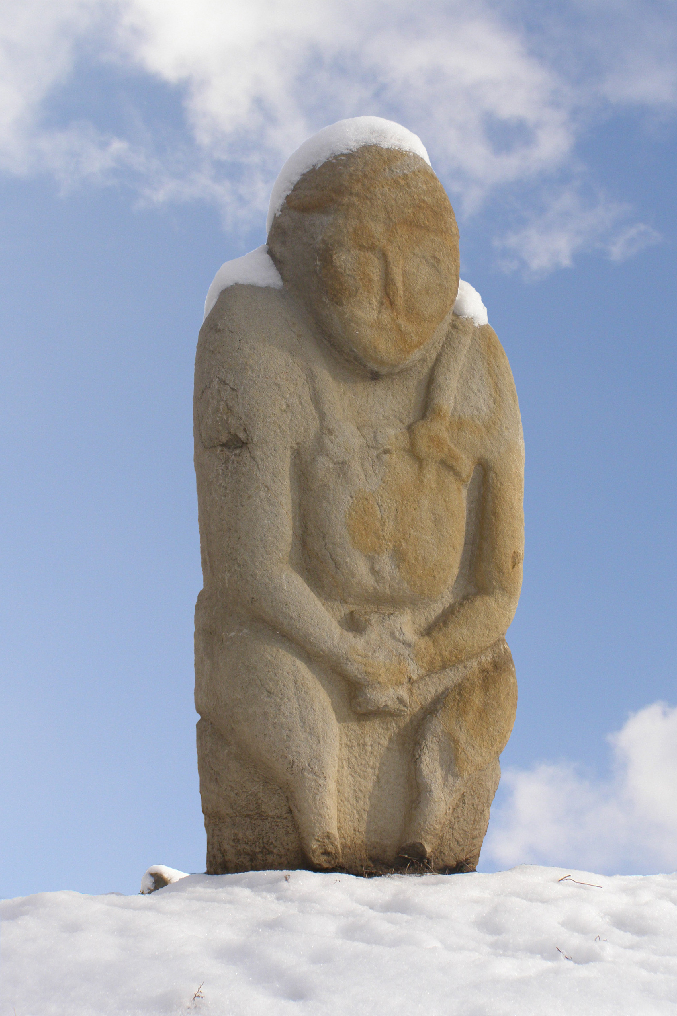 "Baba" 11th century Cuman stone statue, Luhansk. پنجابی: "Baba" 11th c., Lugansk.